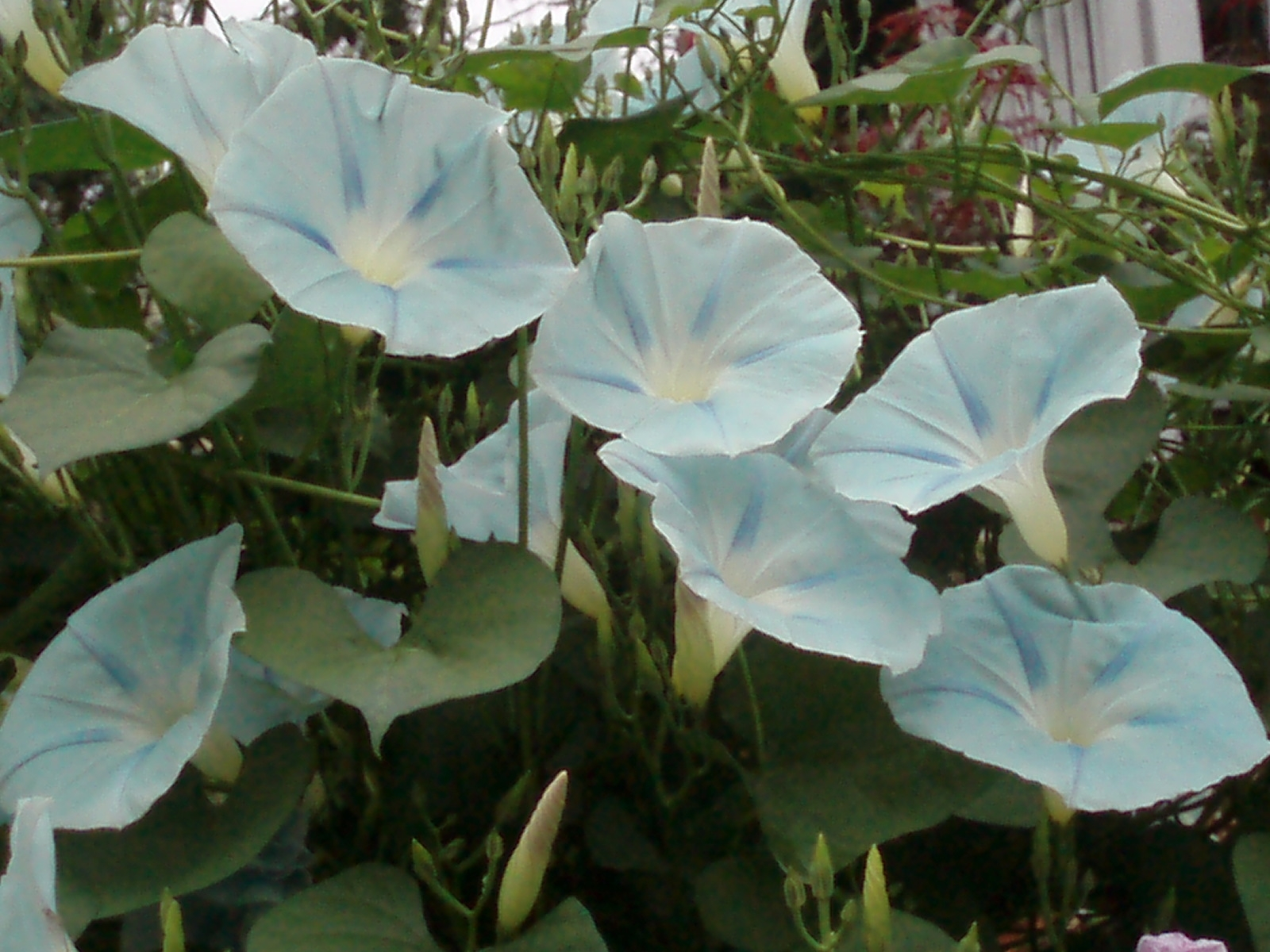 A photograph showing the "Blue Star" variety of morning glories. This photograph was taken in a Haverhill, Massachusetts garden.